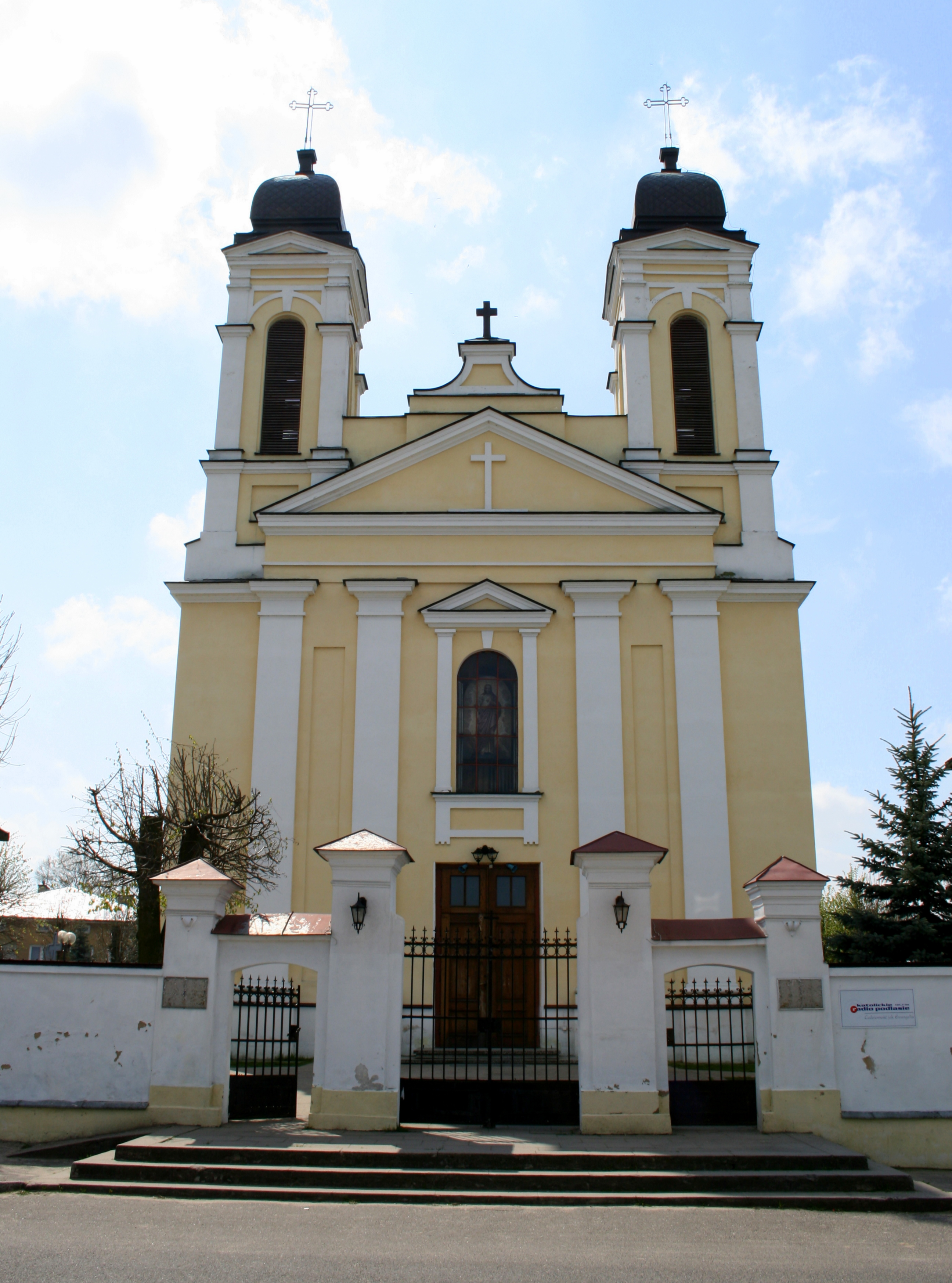 Church Saint Mary Magdalene in Suchożebry